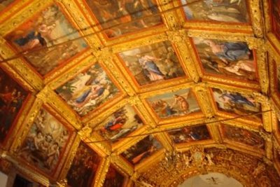 Detail of Calvary Chapel, Covilhã